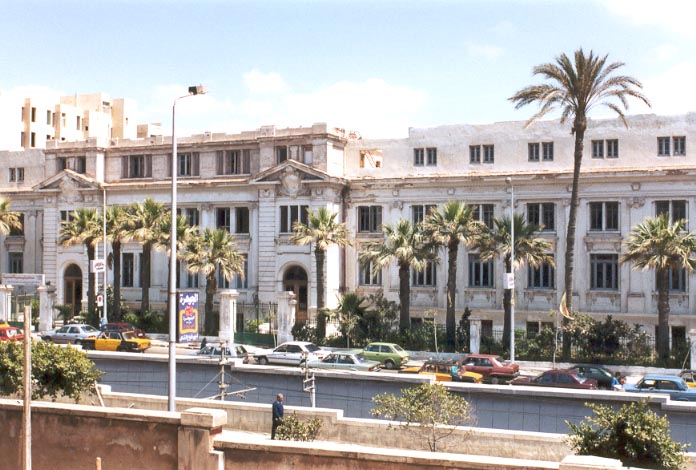 the School Lycee Al-Horreya of Alexandria in 2001